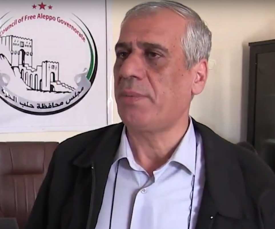 Jawad Abu Hatab, former Prime Minister and Defence Minister of the Syrian Interim Government